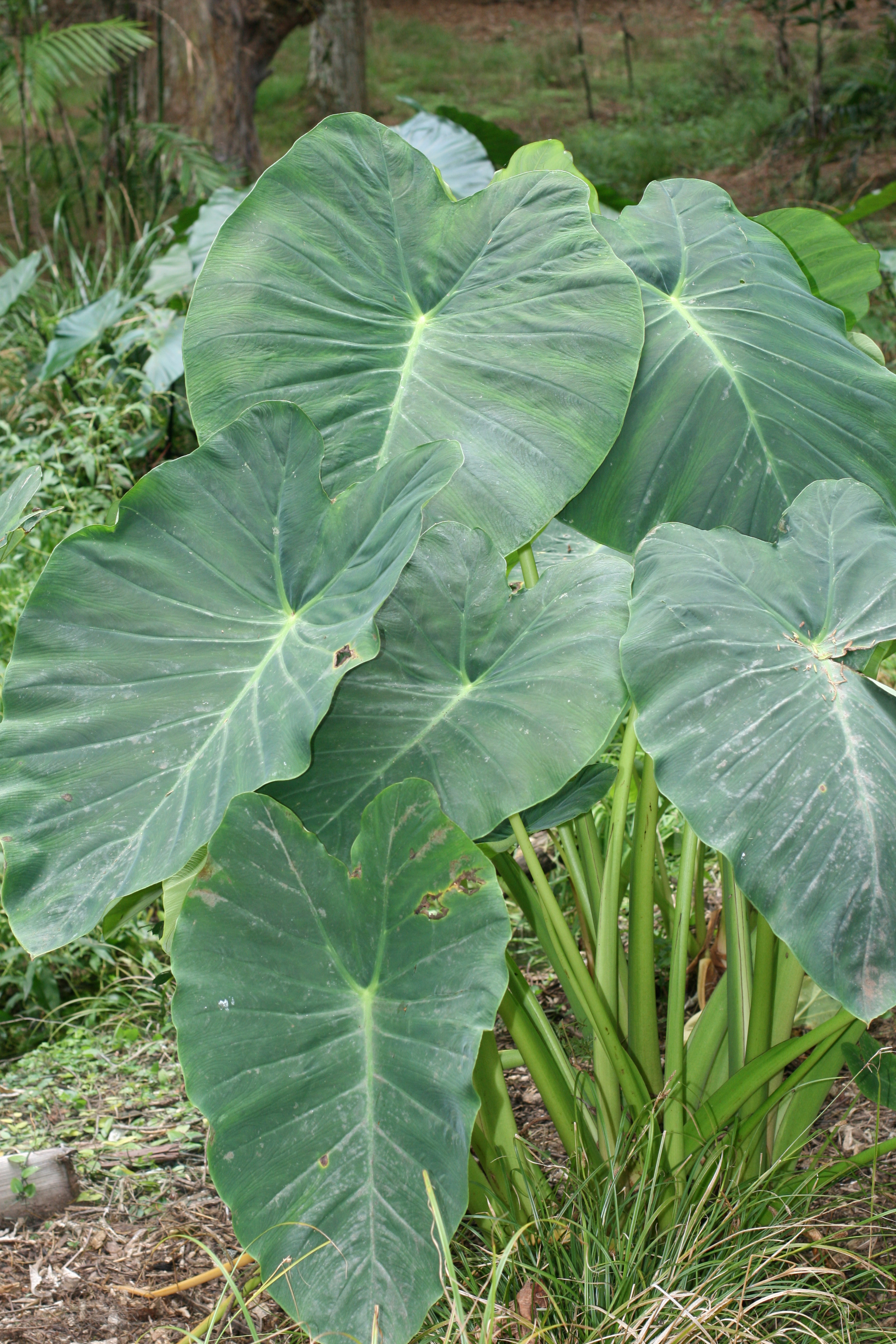 Colocasia esculenta, Māori name taro. Plants growing at Auckland, New Zealand.